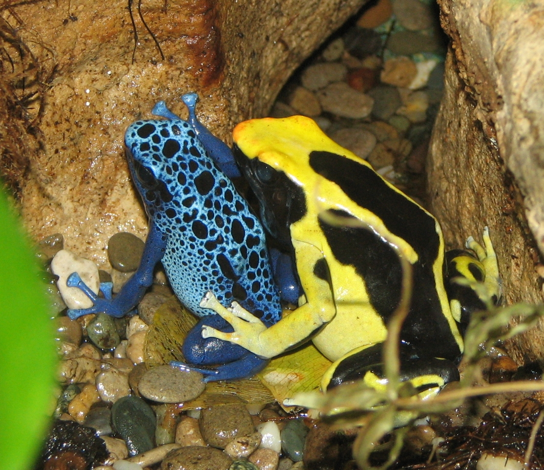 Poison Dart Frogs Dendrobates tinctorius and Dendrobates azureus Photo taken at the Louisville Zoo.